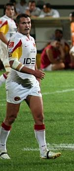 Clint Greenshields playing for the Catalans Dragons in Super League (2009)